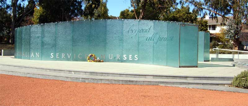 Australian Service Nurses National Memorial in ANZAC Parade, the principal ceremonial amd memorial avenue of Canberra, the national capital city of Australia.